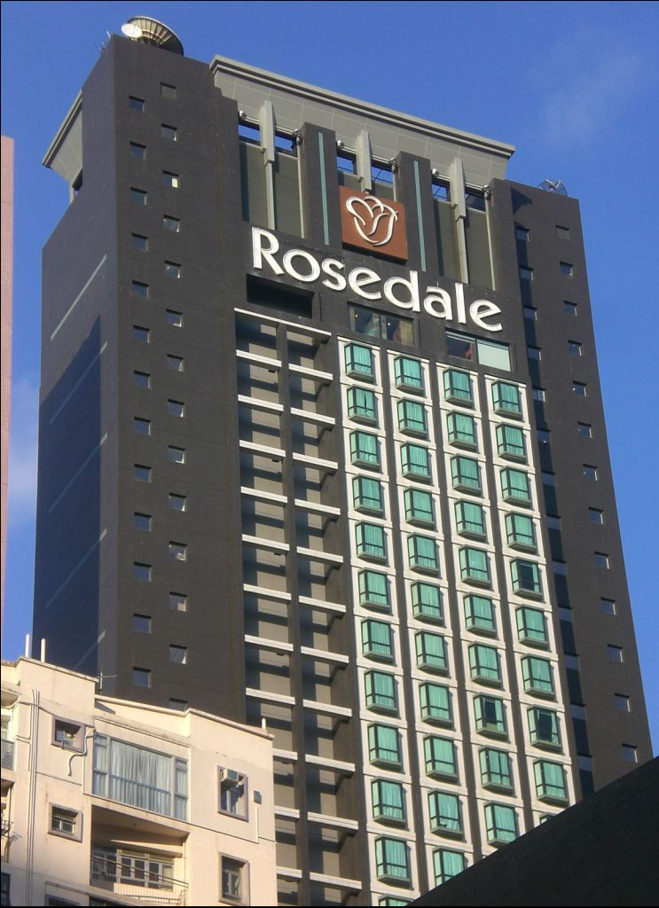 香港島銅鑼灣信德街8號珀麗酒店